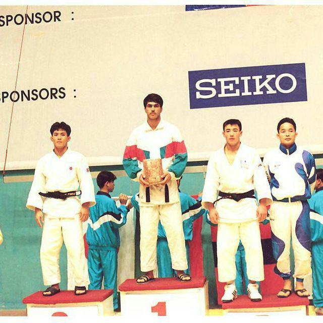 کسب اولین مدال طلای جودوی آسیا توسط زین العابدین حقانی